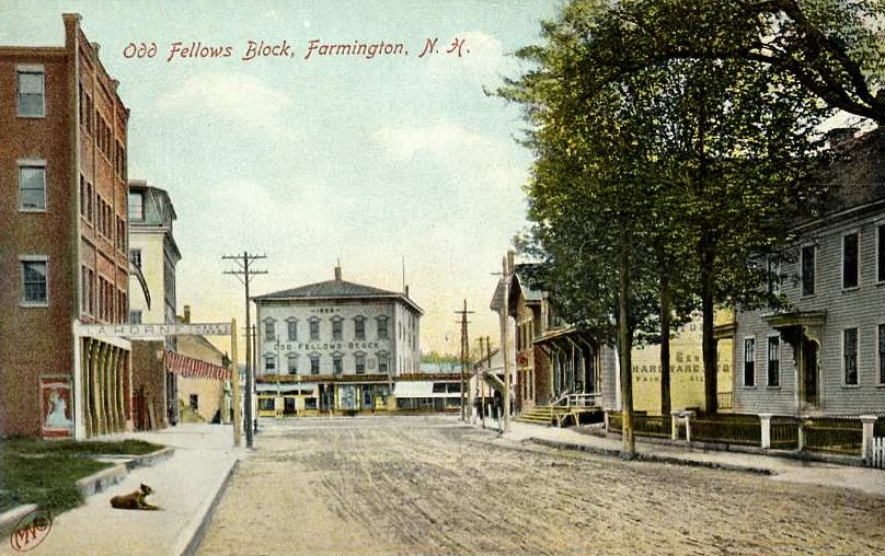 Odd Fellows' Block, Farmington, New Hampshire